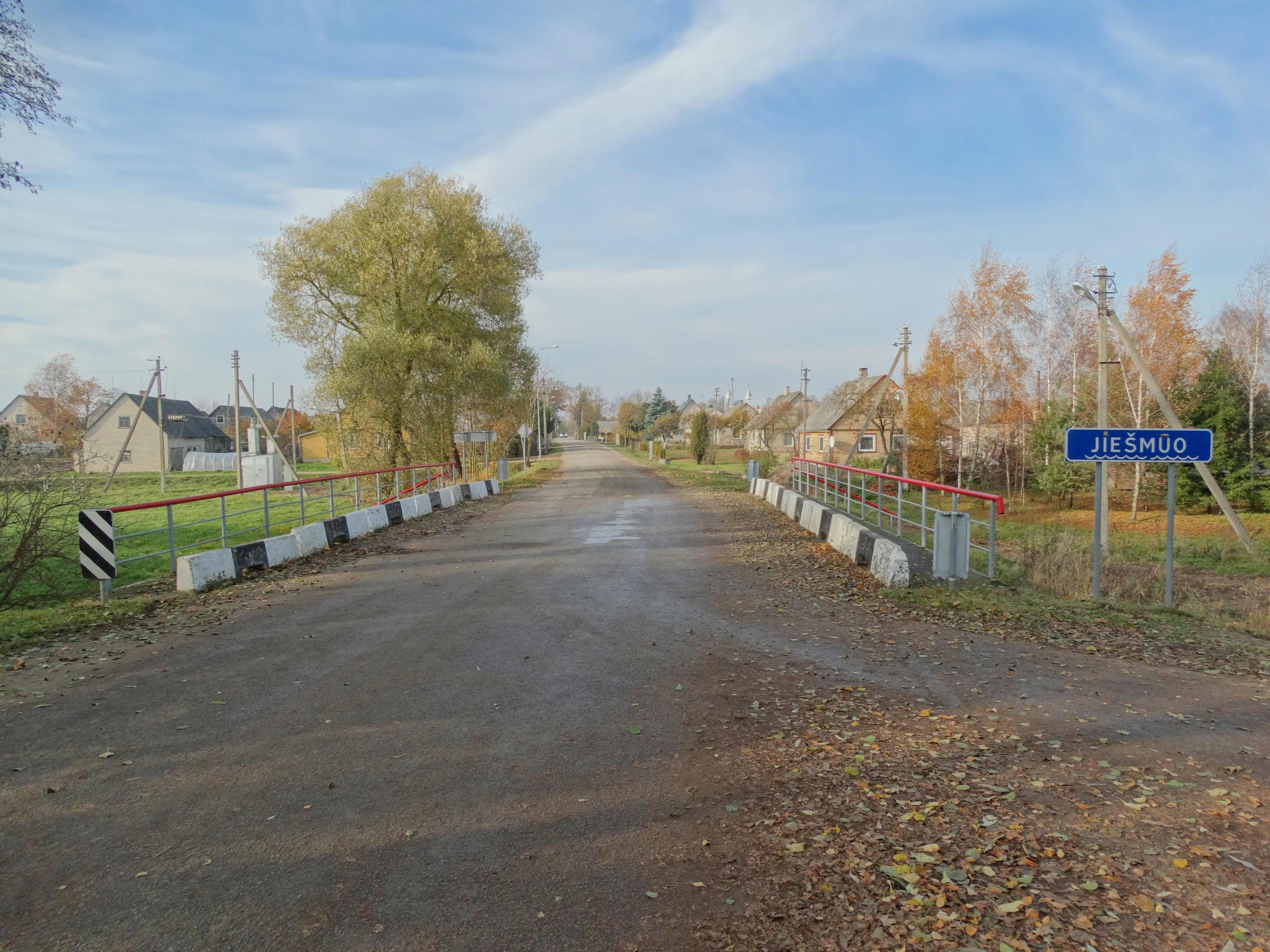 Krinčinas, Pasvalys District, Lithuania